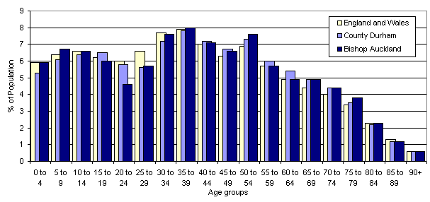 Chart showing the breakdown of population vs Age for Bishop Auckland, compared with County Durham and England and Wales Source Data: I created this chart myself on en:2007-08-21 Pit-yacker 23:24, 20 August 2007 (UTC)